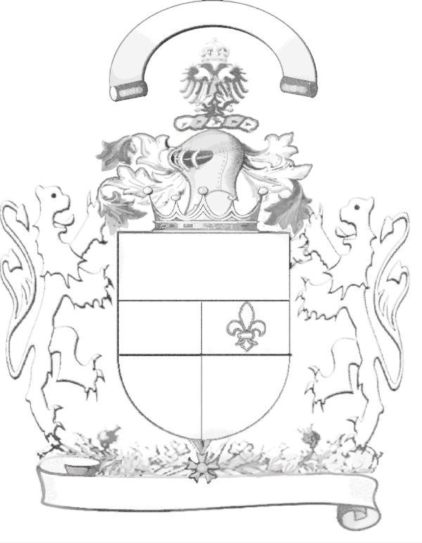 A coat of arms representing elements.